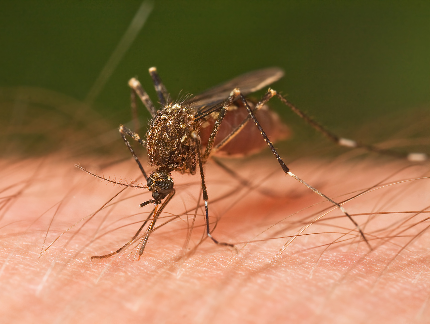 Ochlerotatus notoscriptus, Tasmania, Australia